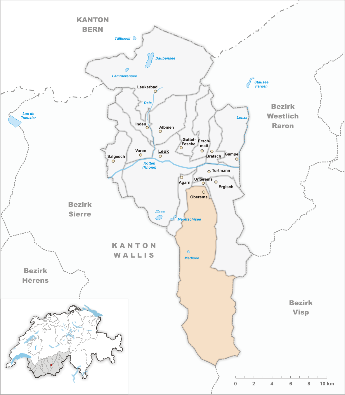 Municipality Oberems